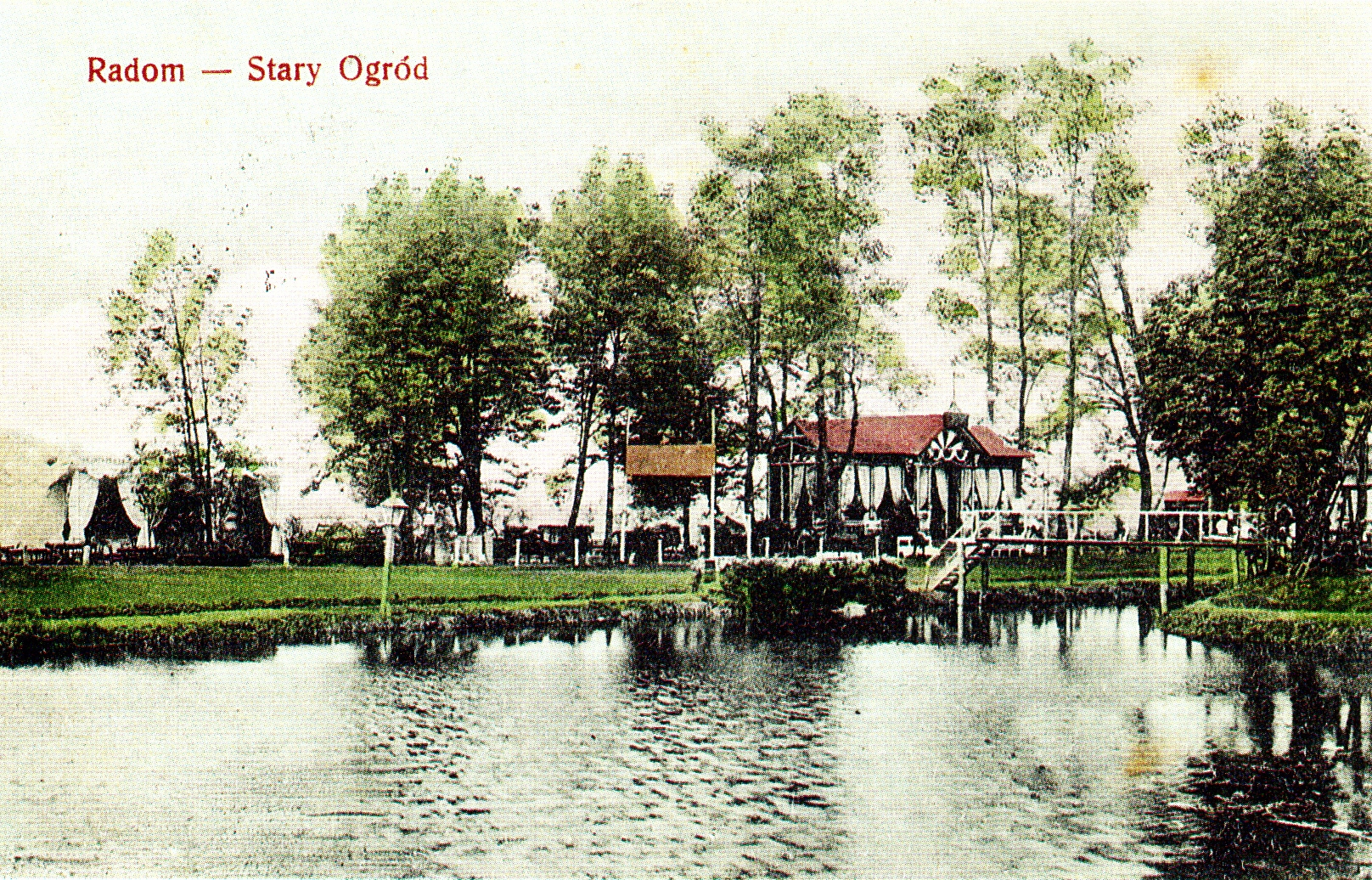 Old Garden in Radom, Poland (1900)